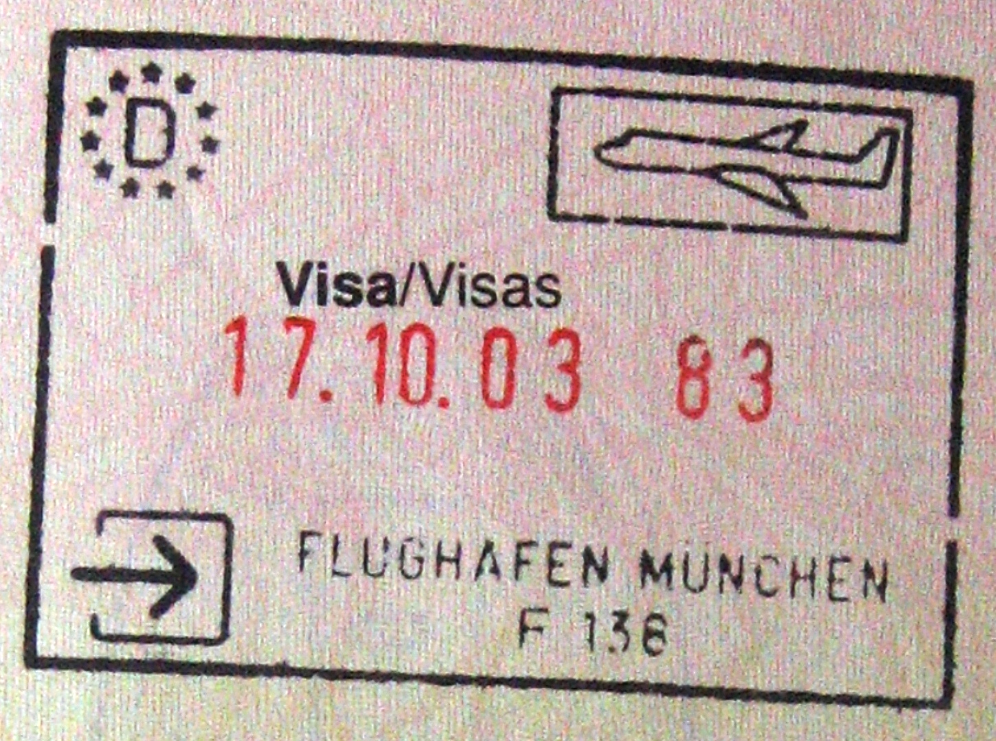 Schengen entry stamp from Munich Airport.